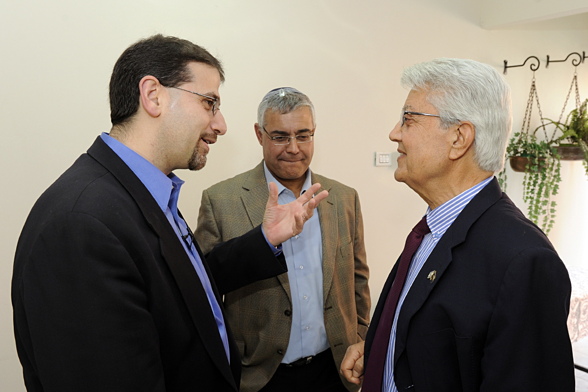 Ambassador Shapiro demonstrated that our English language programs open doors to wider U.S. Israel cooperation when he visited Beit Shean December 20. The Ambassador visited an ORT school, spoke at a town hall, and toured Beit Shean National Park. ORT Israel gave an overview of the “Jordan Valley Robotics Education Center, their vision of a regional center to teach Israeli and Jordanian youth about robotics and environmental issues while promoting peace and understanding. Ambassador Shapiro also visited sites associated with efforts to rehabilitate the Jordan River and a peace park promoting Israeli-Jordanian cooperation The visits were hosted by Friends of the Earth Middle East and regional Mayor Jossi Vardi. With support from USAID, community leaders such as Mayor Jossi Vardi as well as Jordanian leaders have been working together in the “Good Water Neighbors project” to help clean up this important joint resource. Their hard work and advocacy has paid off with construction of a waste water treatment plant that will soon remove the sewage. USAID has been partnering with FoEME since 2001, first as part of the Wye River Agreement, and more recently through USAID’s Conflict Management and Mitigation (CMM) grant. Photo credit: Matty Stern U.S . Embassy Tel Aviv